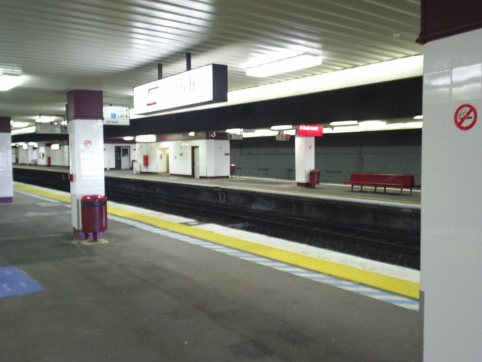 QR Ipswich Station. Taken on Platform 1, looking towards 2,3 & 4. Taken by Qld matt 14:32, 22 December 2006 (UTC)